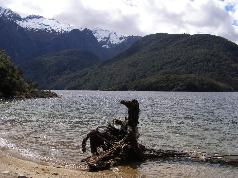 A Small Beach on Pomona Island Looking North Fiordland National Park